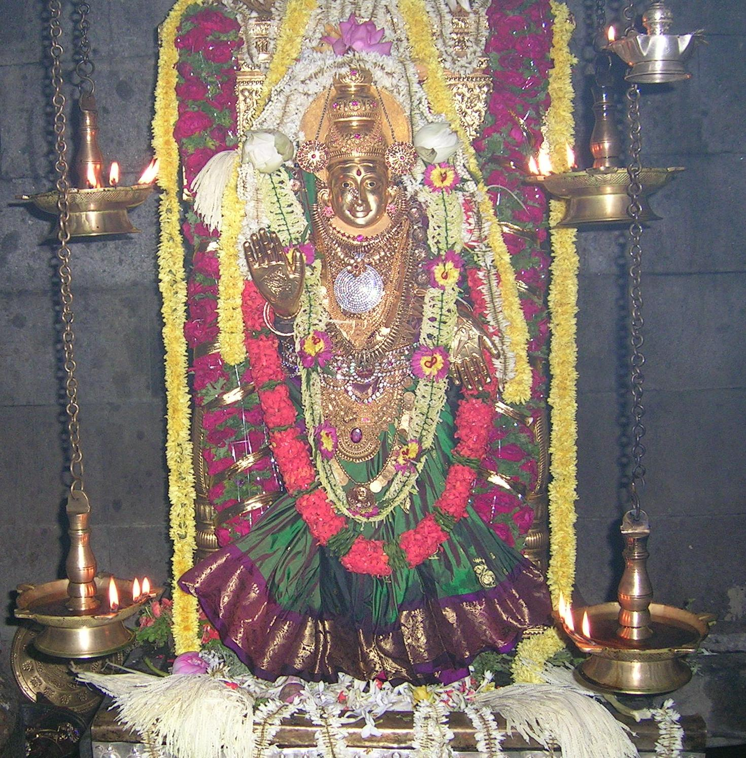 Sri Durgaparameshwari during Festival day with all ornaments. An idol of Devi Adi Shakti at the Mundkur temple near Udupi.